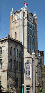 Saat Tower